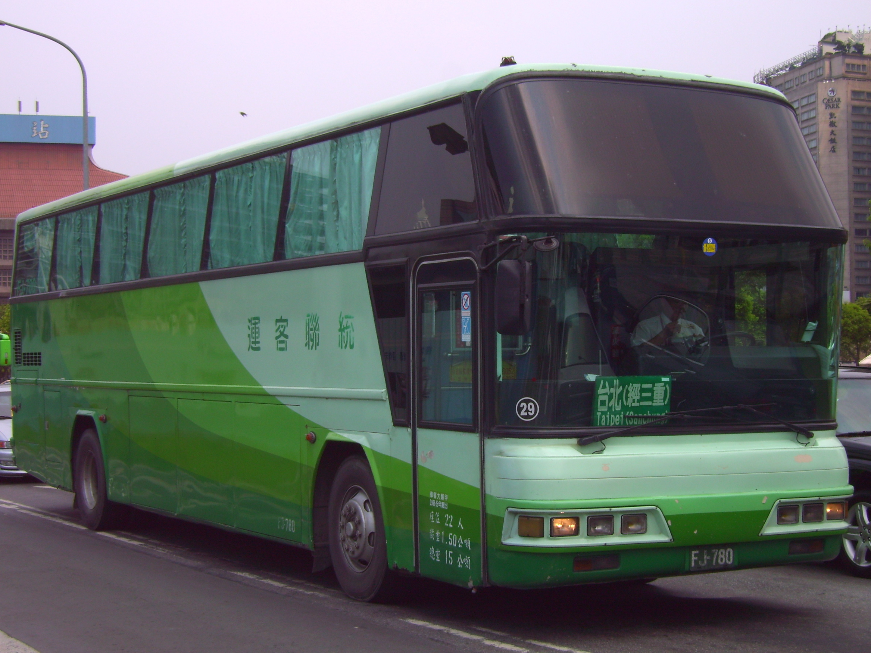 United Bus Co., Ltd. purchased HINO LRM Buses at 1994-1999 for using freeway lines, and this picture is LRM2KTC.